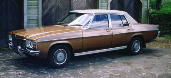 1977–1980 Statesman HZ de Ville.